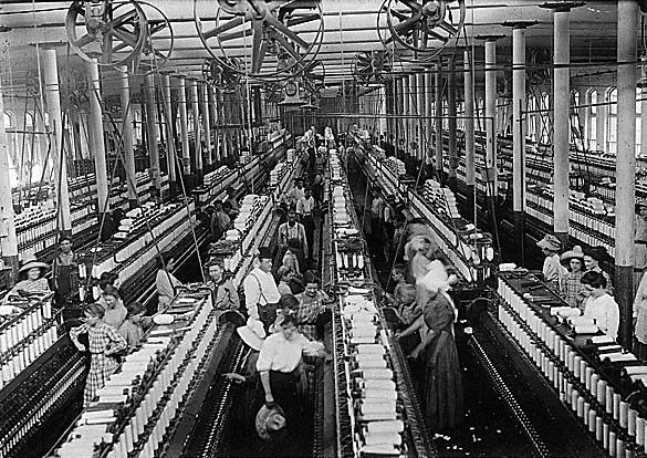 Original description: Interior of Magnolia Cotton Mills spinning room. See the little ones scattered through the mill. All work. Magnolia, Miss., 05/03/1911. Photographed by Lewis Hine.